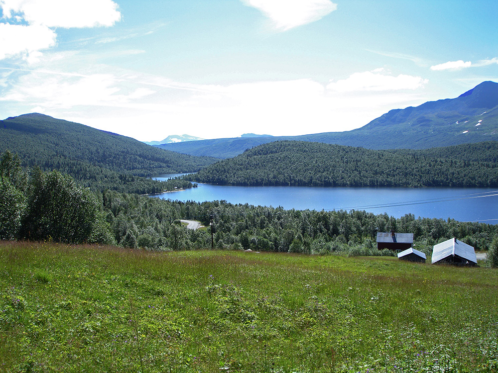 Lake Fättjarn/Faahtjere in Vilhelmina Municipality in Sweden, viewed from the Fättjaur settlement.